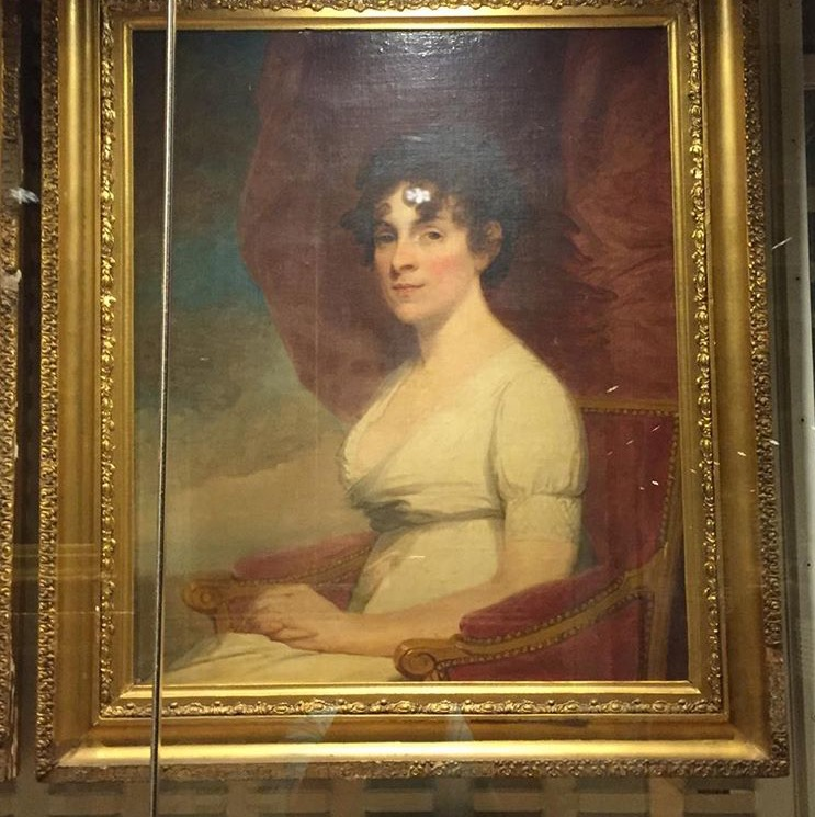 Ann Ogle Tayloe, husband of John Tayloe III-builder of The Octagon in Washington DC. Daughter of Provincial Maryland Governor Benjamin Ogle.